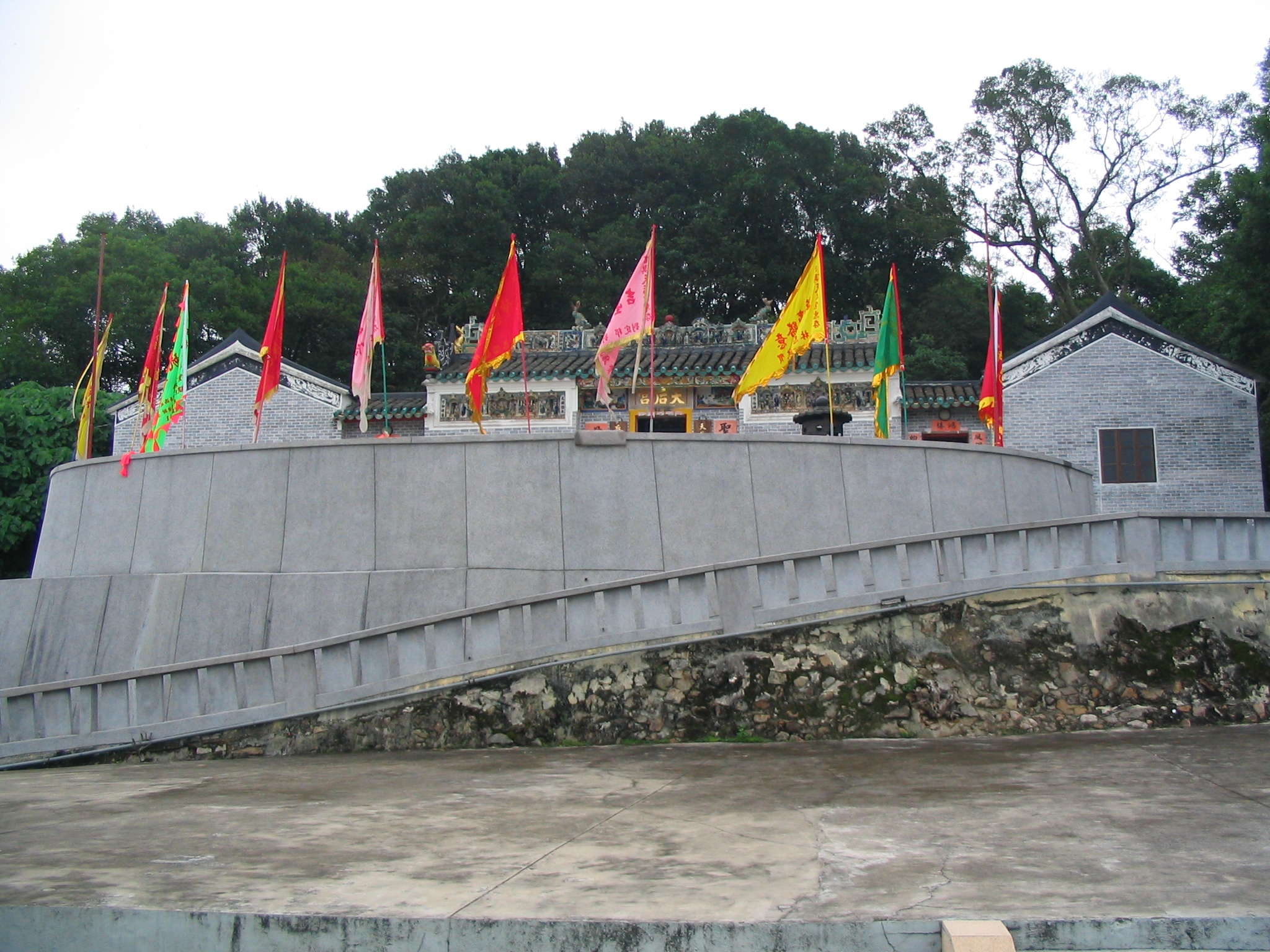 Tin Hau Temple on Kat O Island, Tai Po, New Territories, Hong Kong.